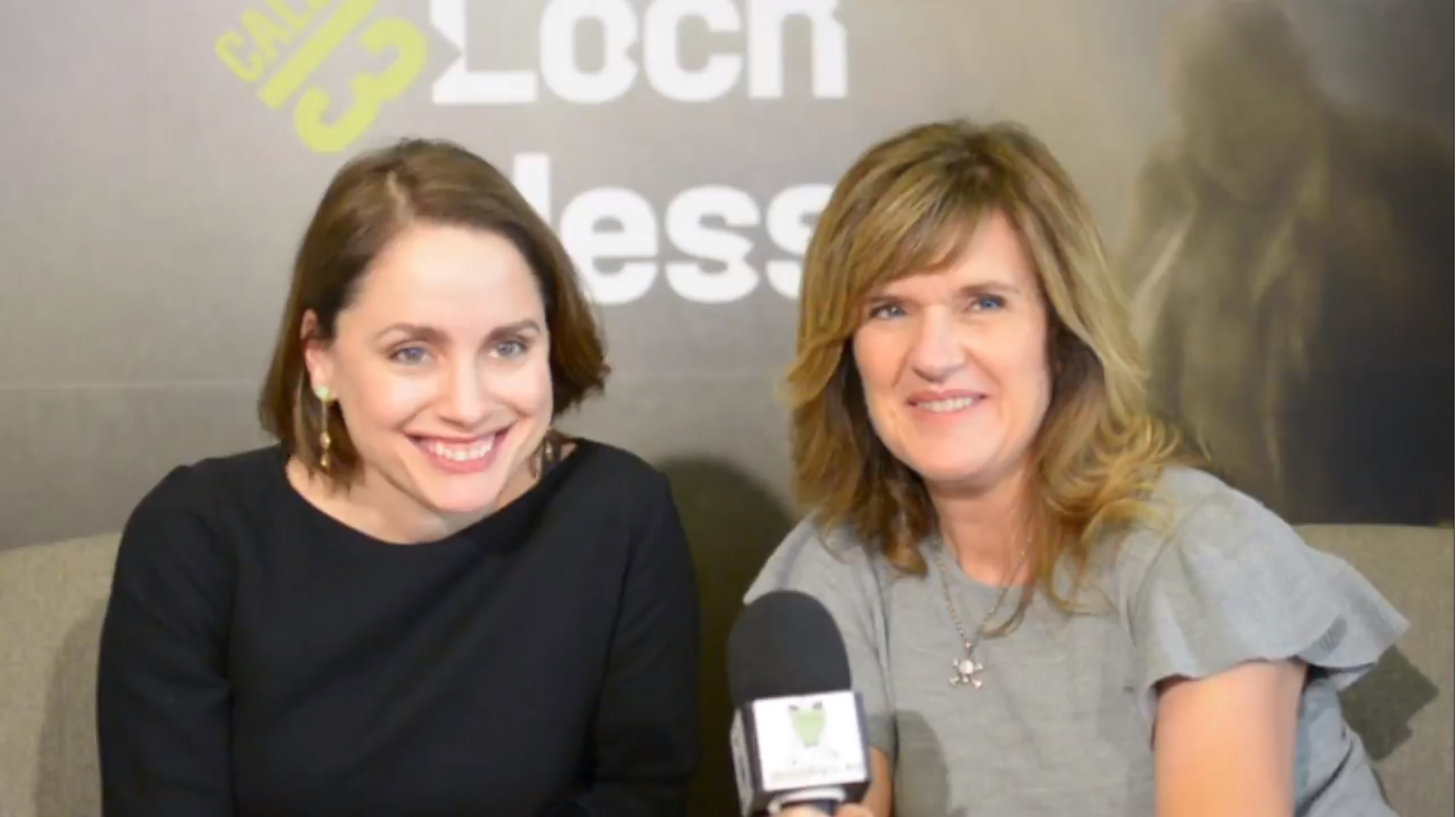 Actresses Siobahn Finneran and Laura Fraser discuss their new television series, Loch Ness (The Loch) with Moobys, Spanish web portal.